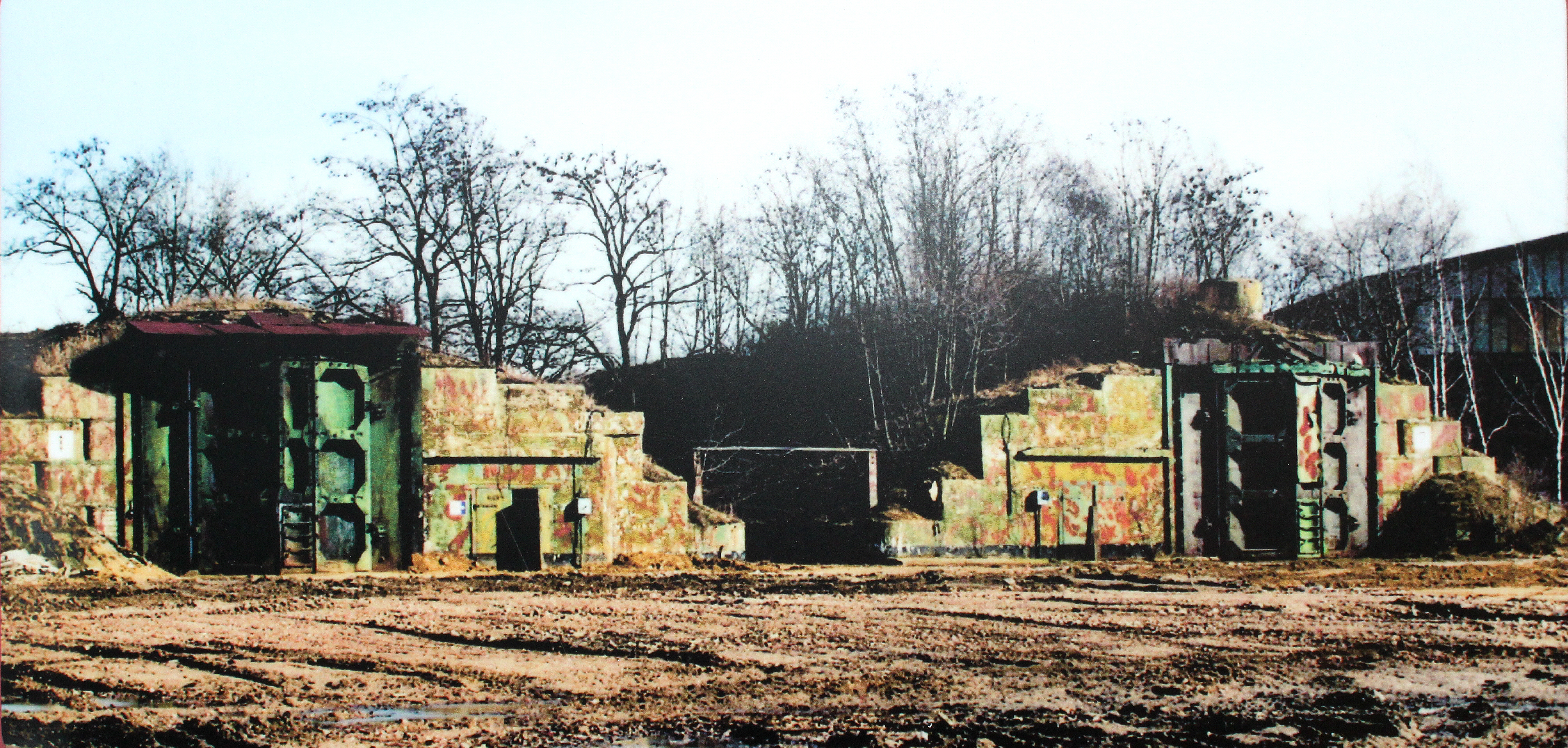 Group of the Soviet Forces in Germany (GSFG) 1945-1994; sites and location to sore or maintain nuclear ammunition, here: Special Weapons Depots (SWD) Special Weapons Depot Großenhain Bunker: 1 and 2, loading platform torn off, after withdraw 1994.